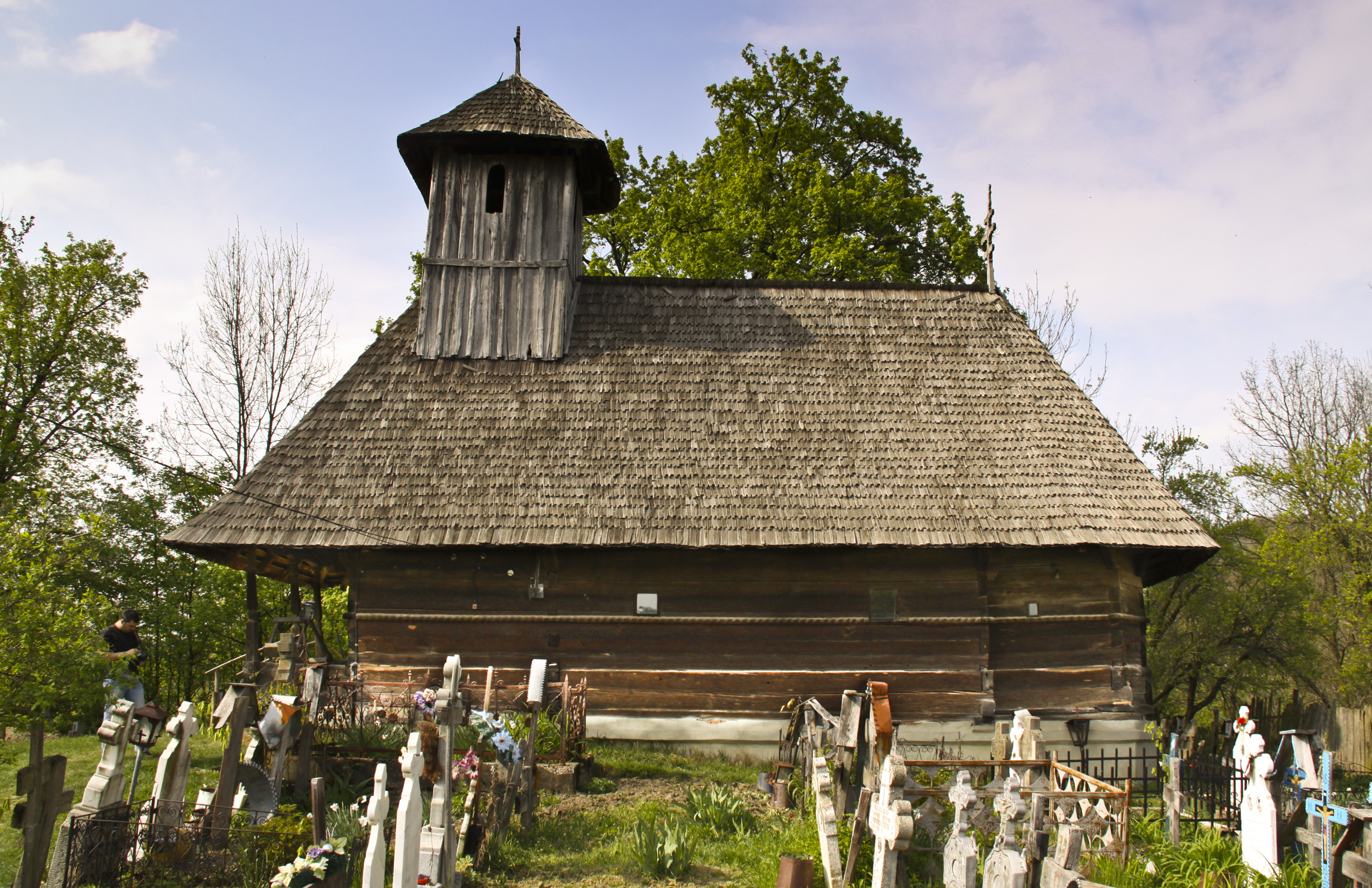 Olteanca-Sânculeşti, Vâlcea county, Romania: the wooden church.